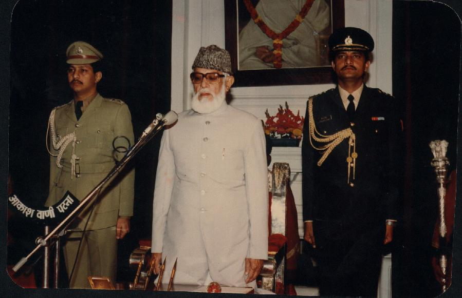 Photo of Mohammad Yunus Saleem as Governor of Bihar, 1990